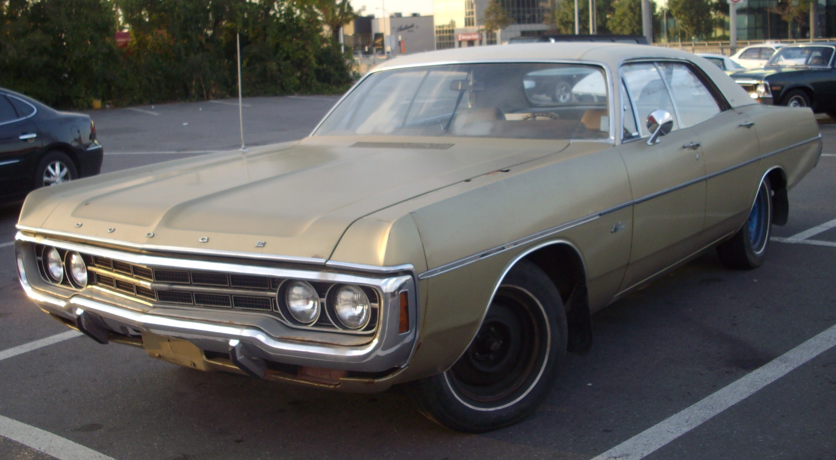 Dodge Monaco photographed in Montreal, Quebec, Canada at Gibeau Orange Julep.